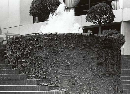 Ruth Asawa's San Francisco Fountain, 1969-1970, San Francisco, CA